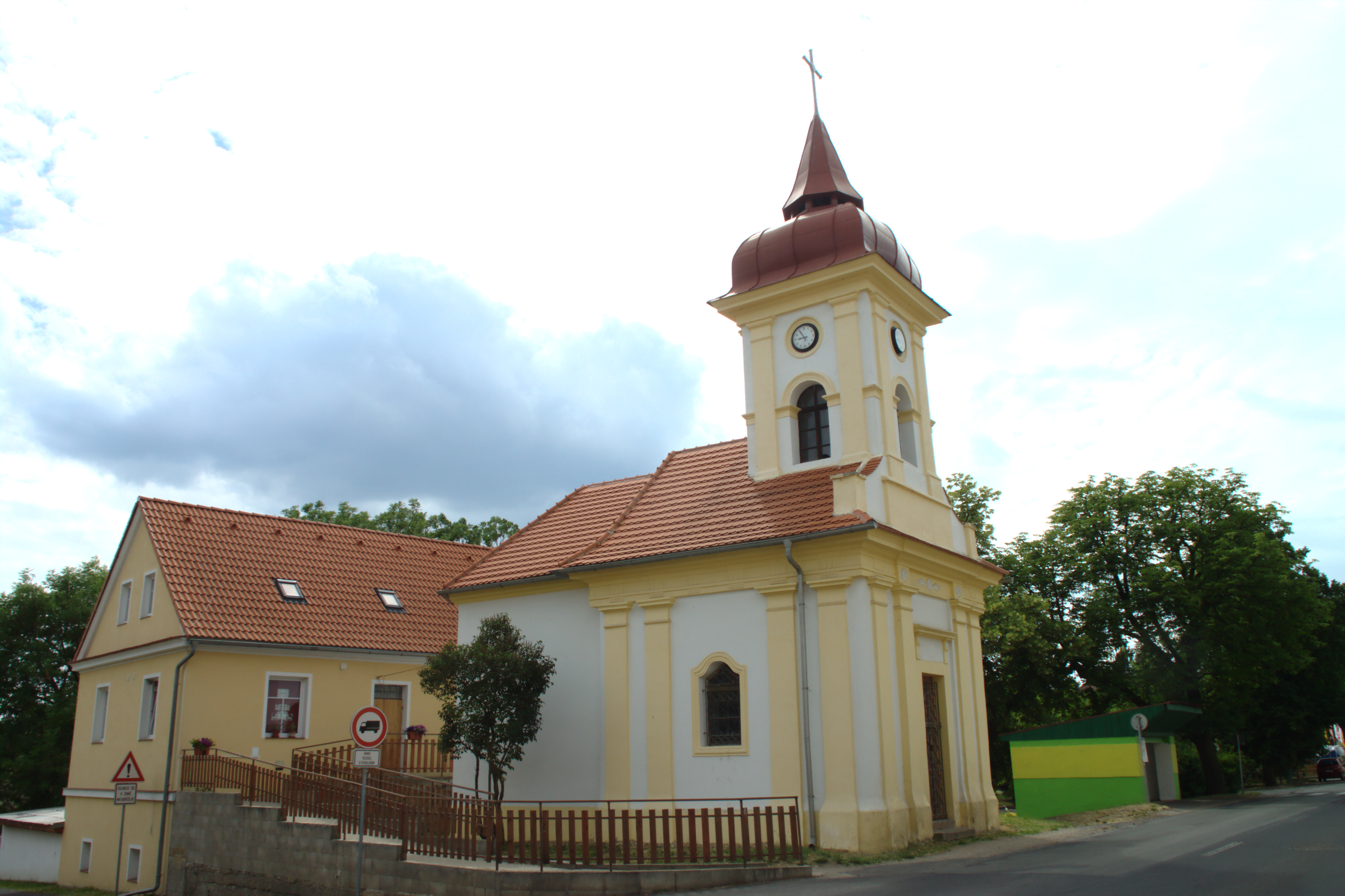 A chapel in Vrutice, near the main road, Ústí Region, CZ